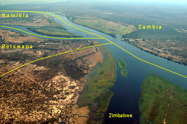 Derivative work from Brian McMorrow's Zambezi River at junction of Namibia, Zambia, Zimbabwe & Botswana, borders added by Julieta39